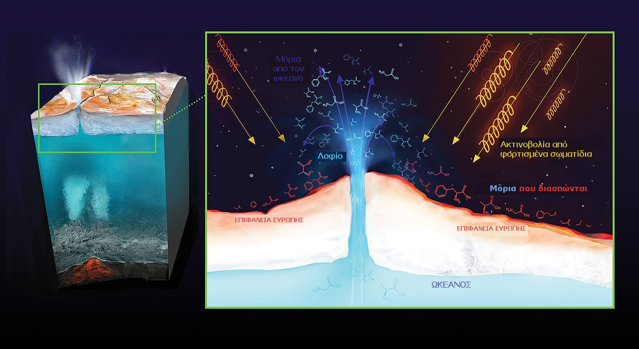 Translation of File:PIA22479-Europa-JupiterMoon-ArtistConcept-20180723.jpg to Greek